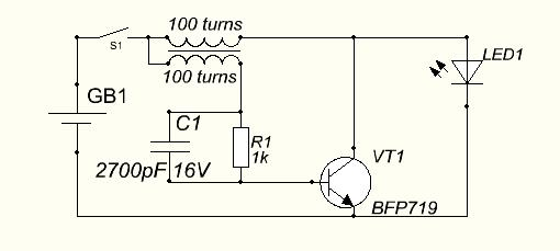 LED flaslight with blocking oscillator.